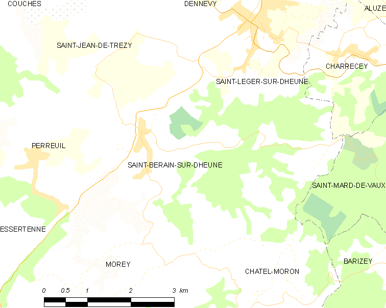 Map of French municipality